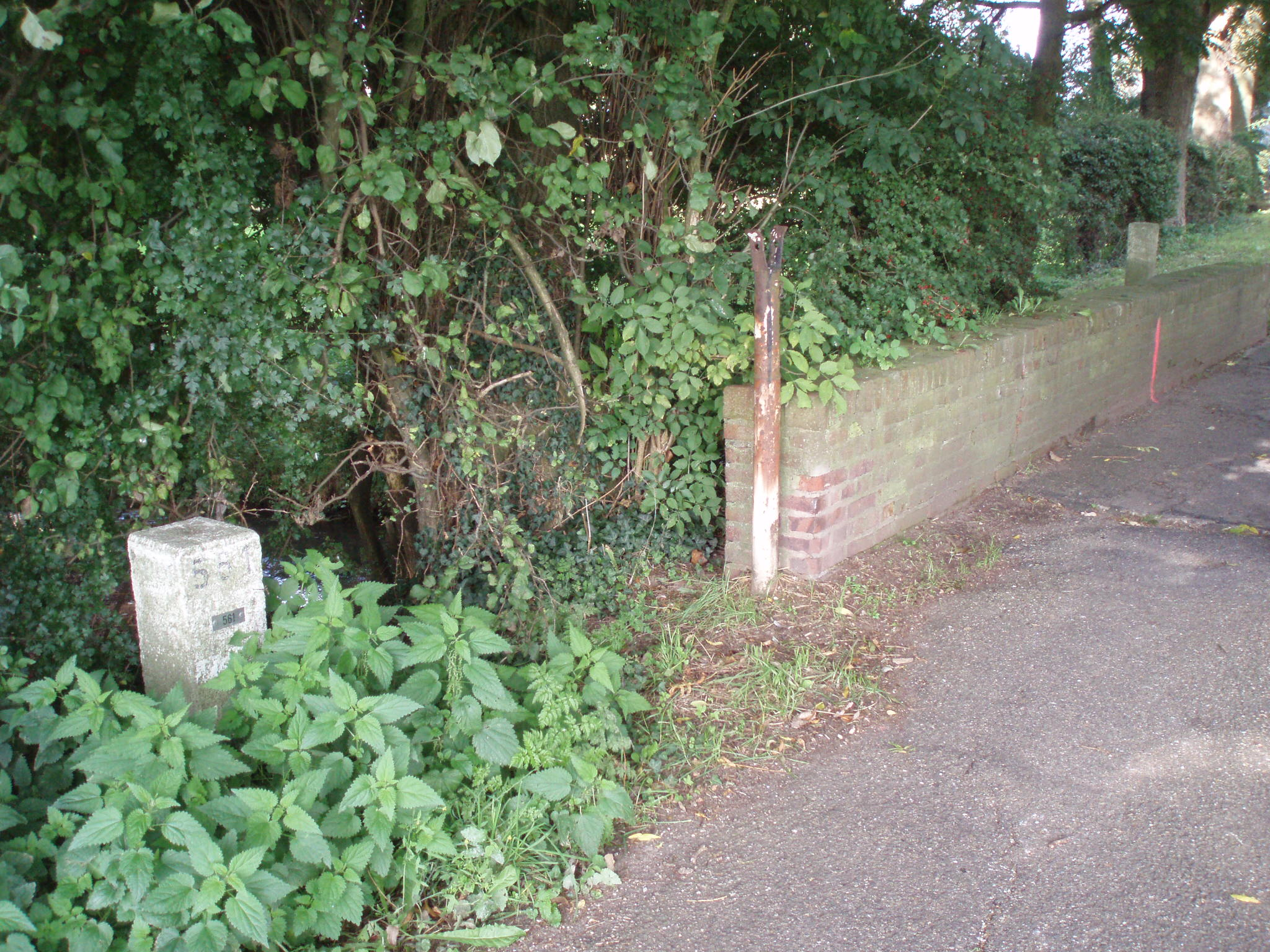 Double border mark (561) at Dutch side (left) and German side (right) next to a bridge over the river Kendel, Hommersum (Germany)